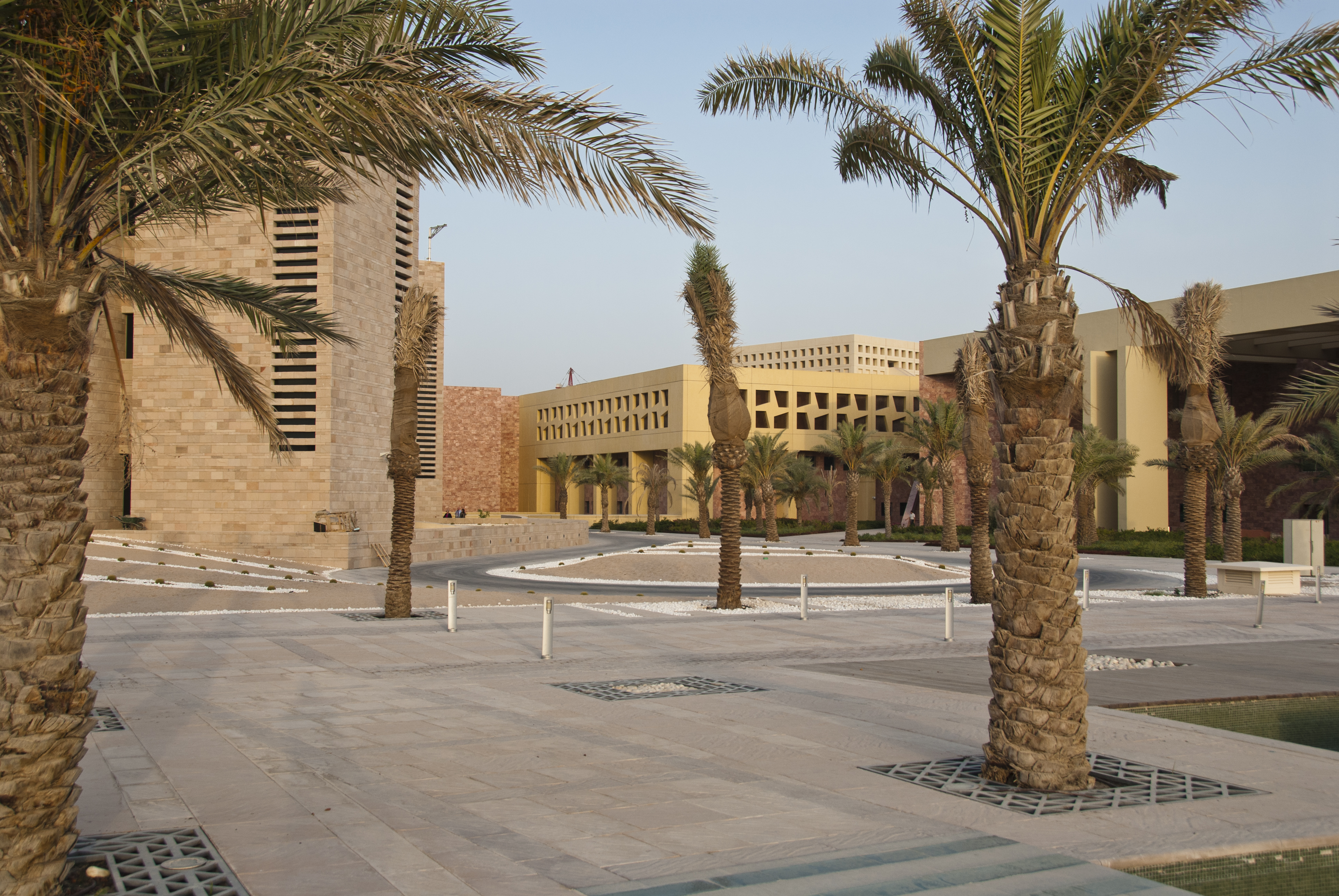 Image of the Texas A&M University at Qatar building.